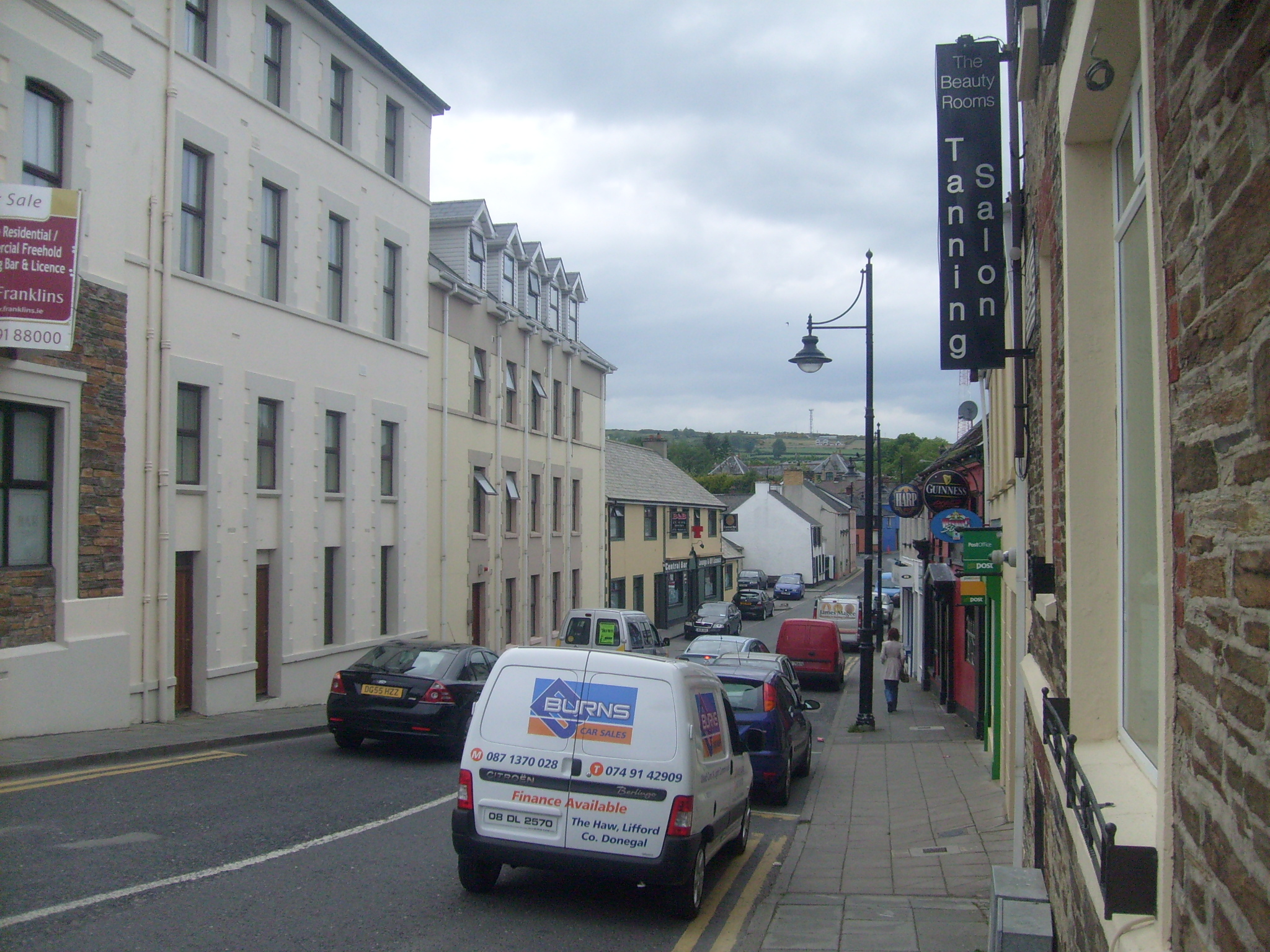 Lifford, Co Donegal, Ireland